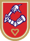 Coat of arms of the municipality of Kikinda